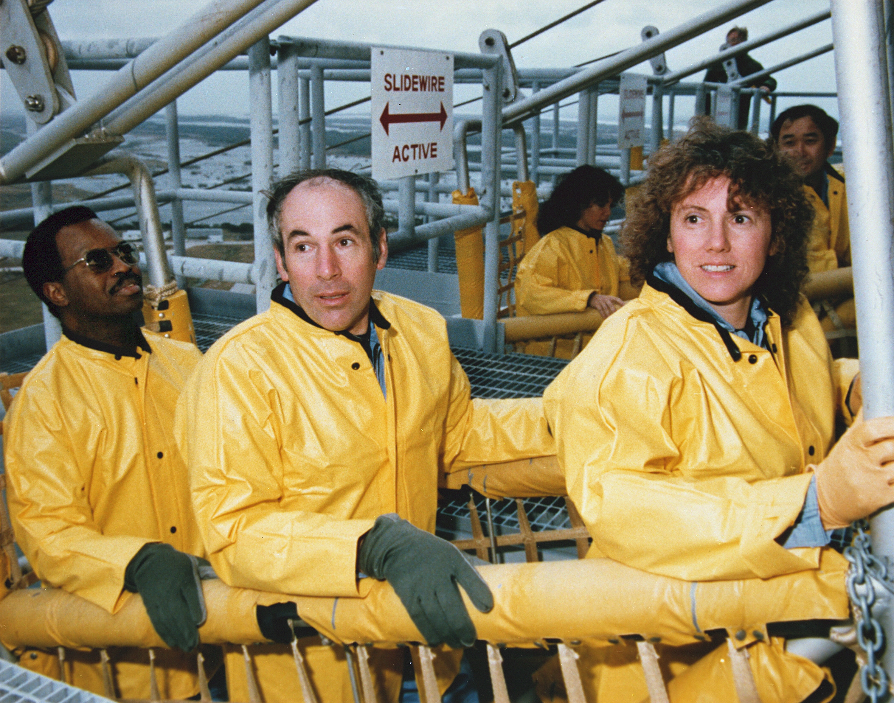 The STS-51L Challenger flight crew emergency egress training in the slide wire baskets. From left to right they are: Mission Specialist, Ronald McNair, Payload Specialist, Gregory Jarvis, Teacher in Space Participant, Christa McAuliffe. Directly behind them: Mission Specialist Judy Resnik and Mission Specialist, Ellison Onizuka.